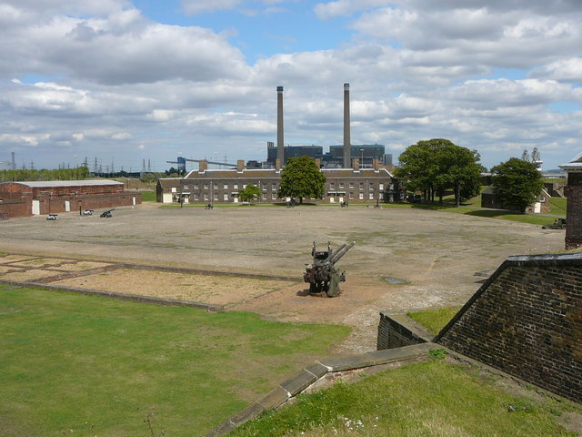 Tilbury Fort - Parade ground